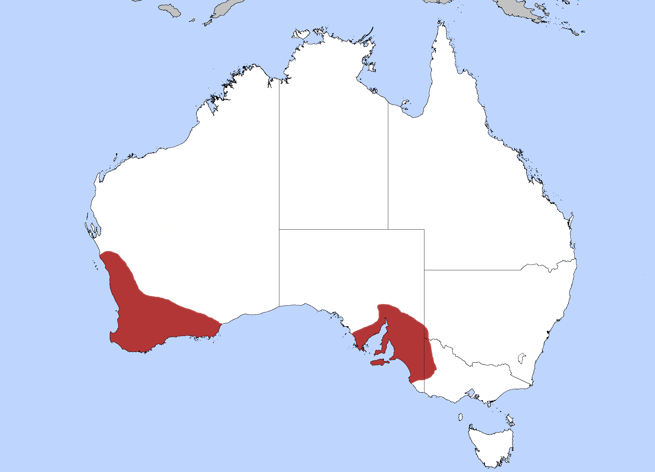 Elegant Parrot distribution, with state borders.